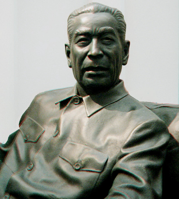 Photo-journalist waives all creative rights to self-made photo. OK for "commons" and present GFDL waiver. Zhou Enlai sculpture